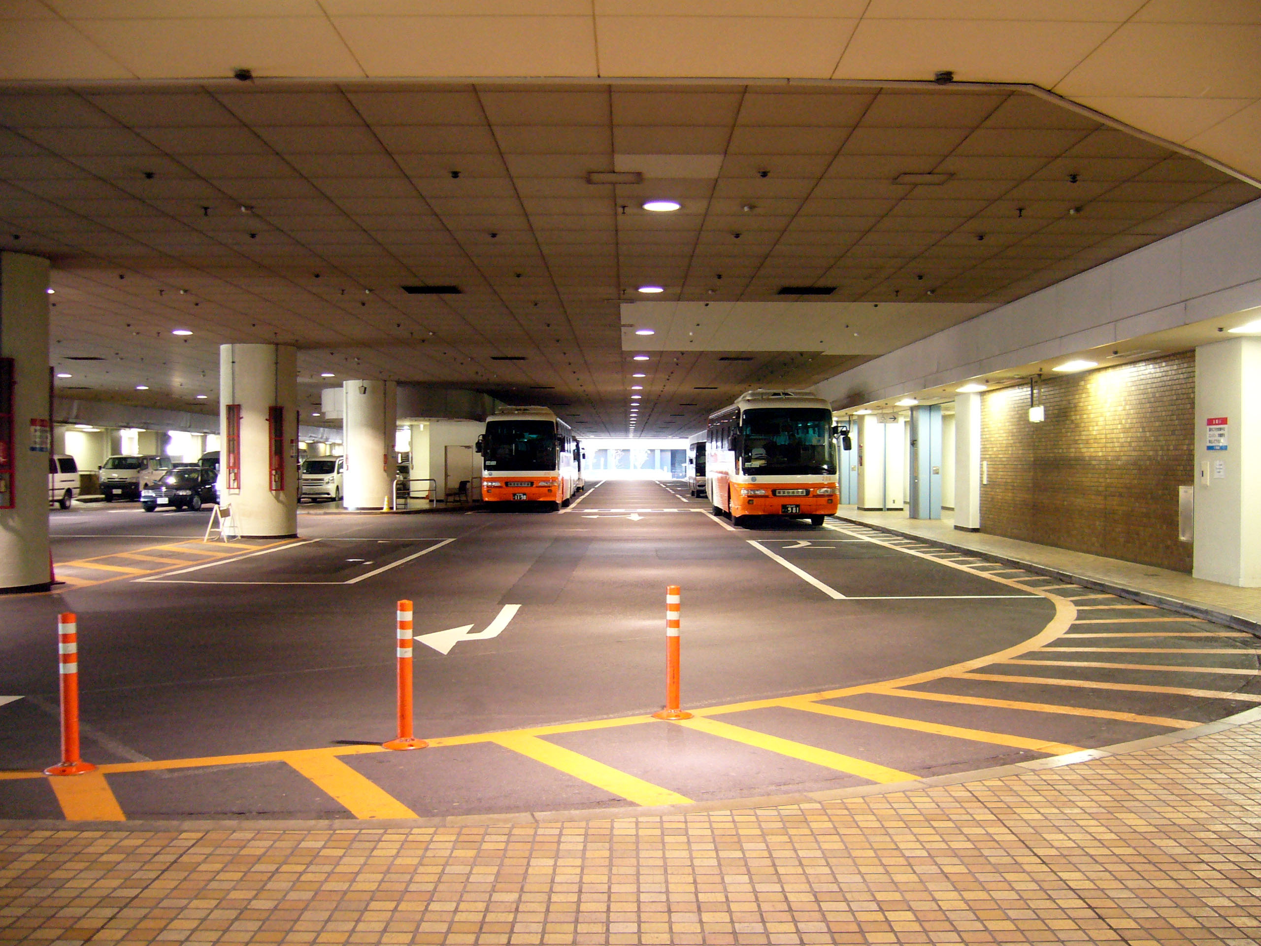 Bus terminal of Sunshine City, Tokyo